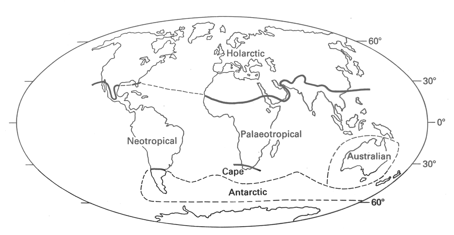 Floristic Kingdoms of The World (TAKHTAJAN 1986)